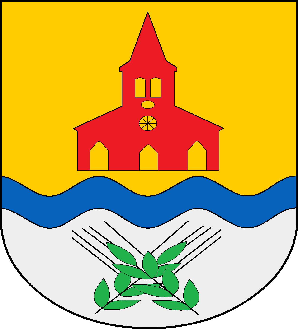 Coat of arms of the municipality Klein Wesenberg in Schleswig-Holstein, Germany.